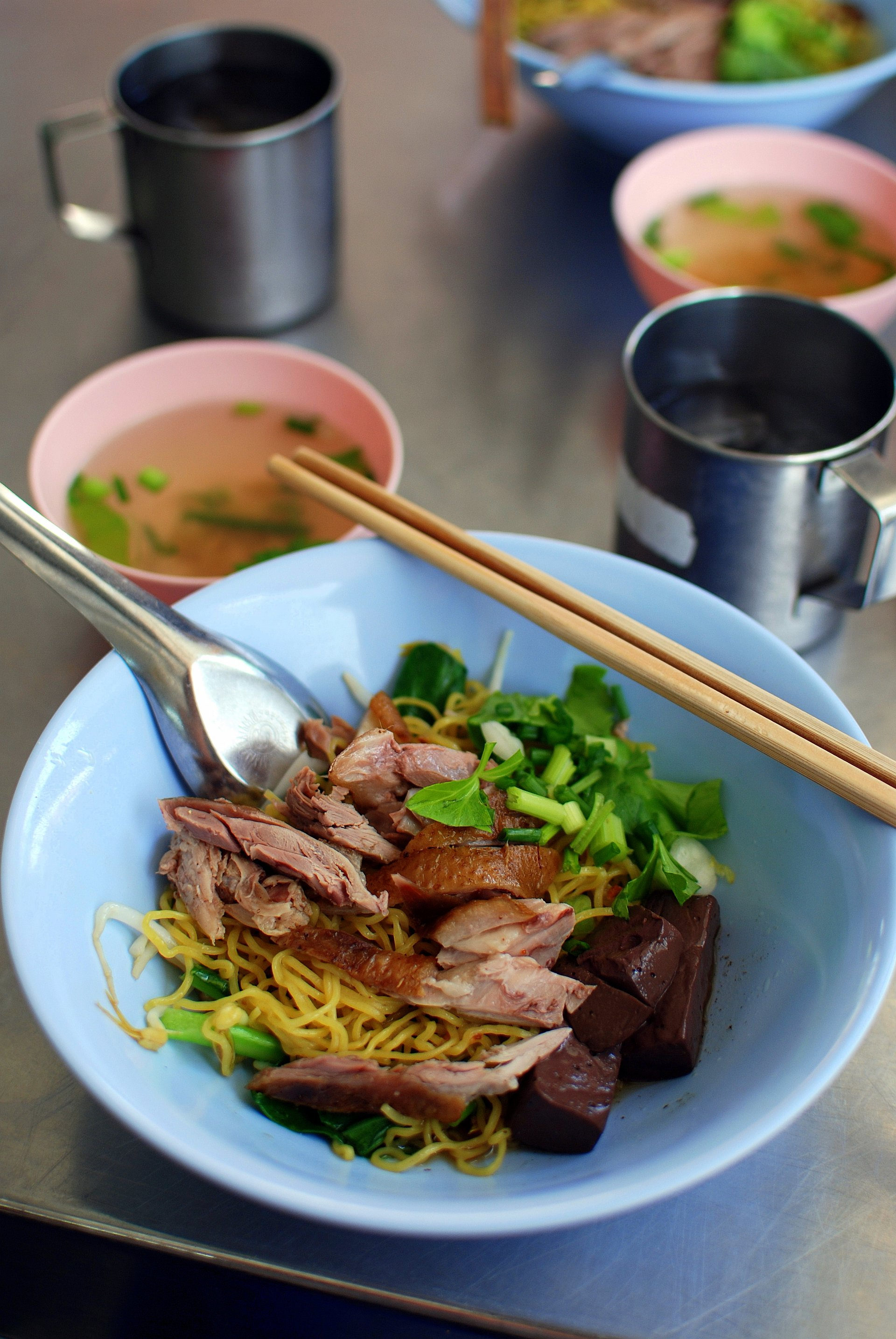 Bami haeng ped (Thai script: บะหมี่แห้งเป็ด) is a dish made with wheat noodles (bami) and duck (ped) served "dry" (haeng). In this particular case, a few pieces of "blood tofu", made from duck blood, are also added in. The broth is served on the side.